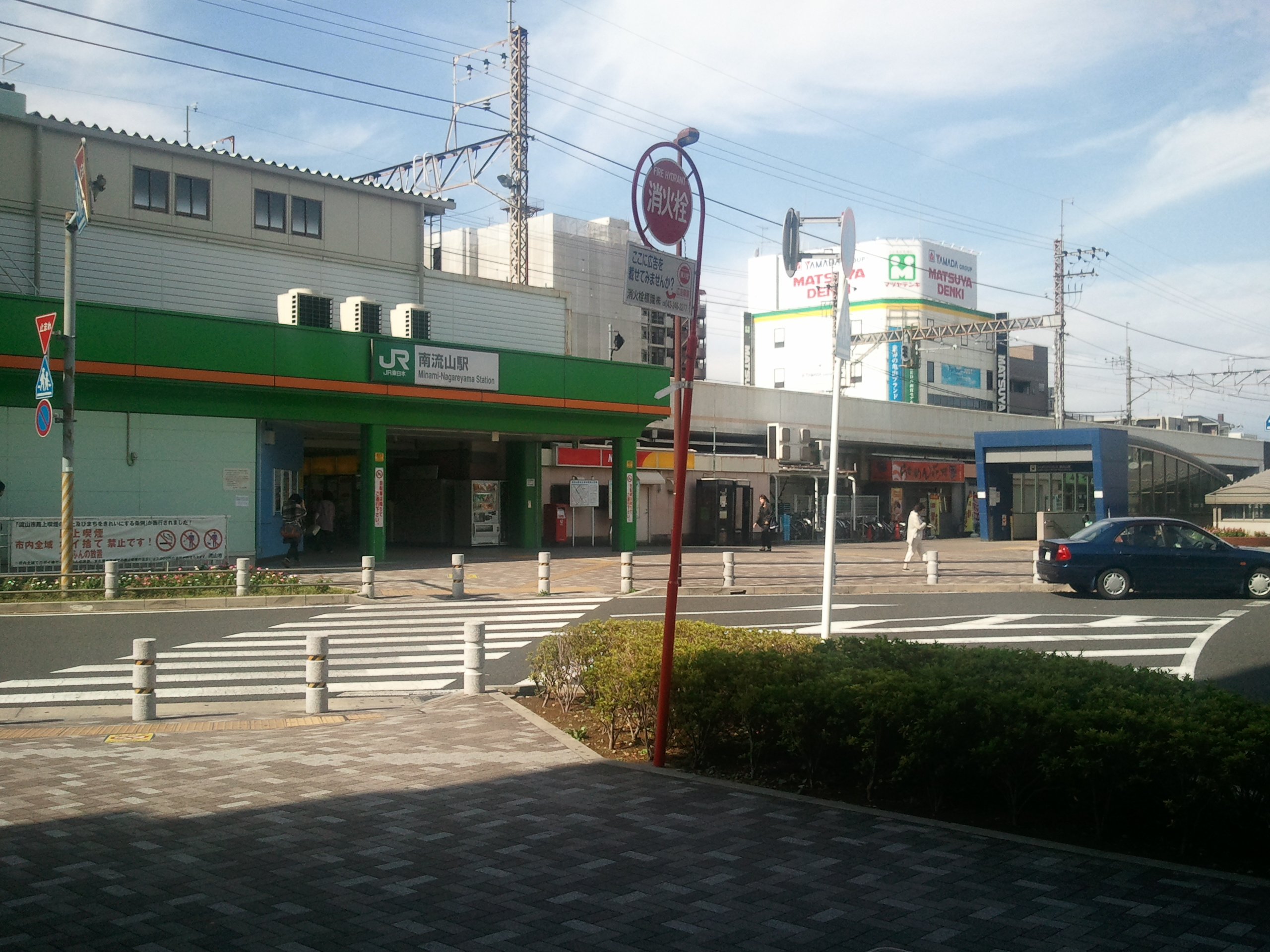 North side of Minami-Nagareyama Station on the Musashino Line and Tsukuba Express